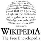 Second Wikipedia Logo (2002), completly transparent, as it was originally. This Wikipedia logo was designed by "The Cunctator" and won the first Wikipedia logo contest, which took place from November to December 2001. This original contest drew 24 entries, the last of which was the winning one. The quotation in the graphic is: Man is distinguished, not only by his reason, but by this singular passion from other animals, which is a lust of the mind, that by a perseverance of delight in the continual and indefatigable generation of knowledge, exceeds the short vehemence of any carnal pleasure. Taken from Thomas Hobbes's Leviathan, Part I, Chapter VI: Desire to know why, and how, curiosity; such as is in no living creature but man: so that man is distinguished, not only by his reason, but also by this singular passion from other animals; in whom the appetite of food, and other pleasures of sense, by predominance, take away the care of knowing causes; which is a lust of the mind, that by a perseverance of delight in the continual and indefatigable generation of knowledge, exceedeth the short vehemence of any carnal pleasure. History previous wikipedia logo, from history of image:Wiki.png